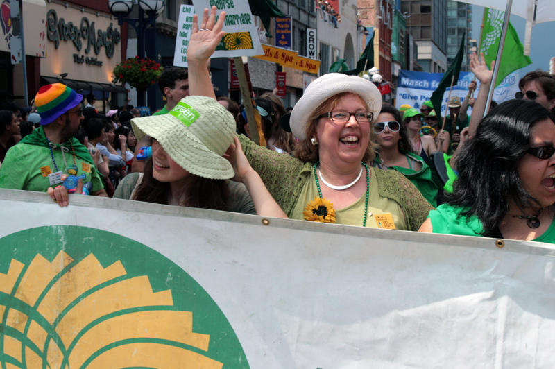 Elizabeth May at Pride 2008